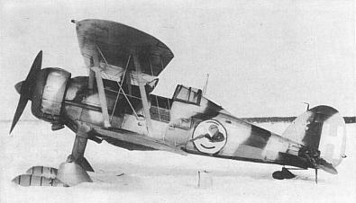 A Swedish Gloster Gladiator of the volunteer detachement F19 in Kauhava